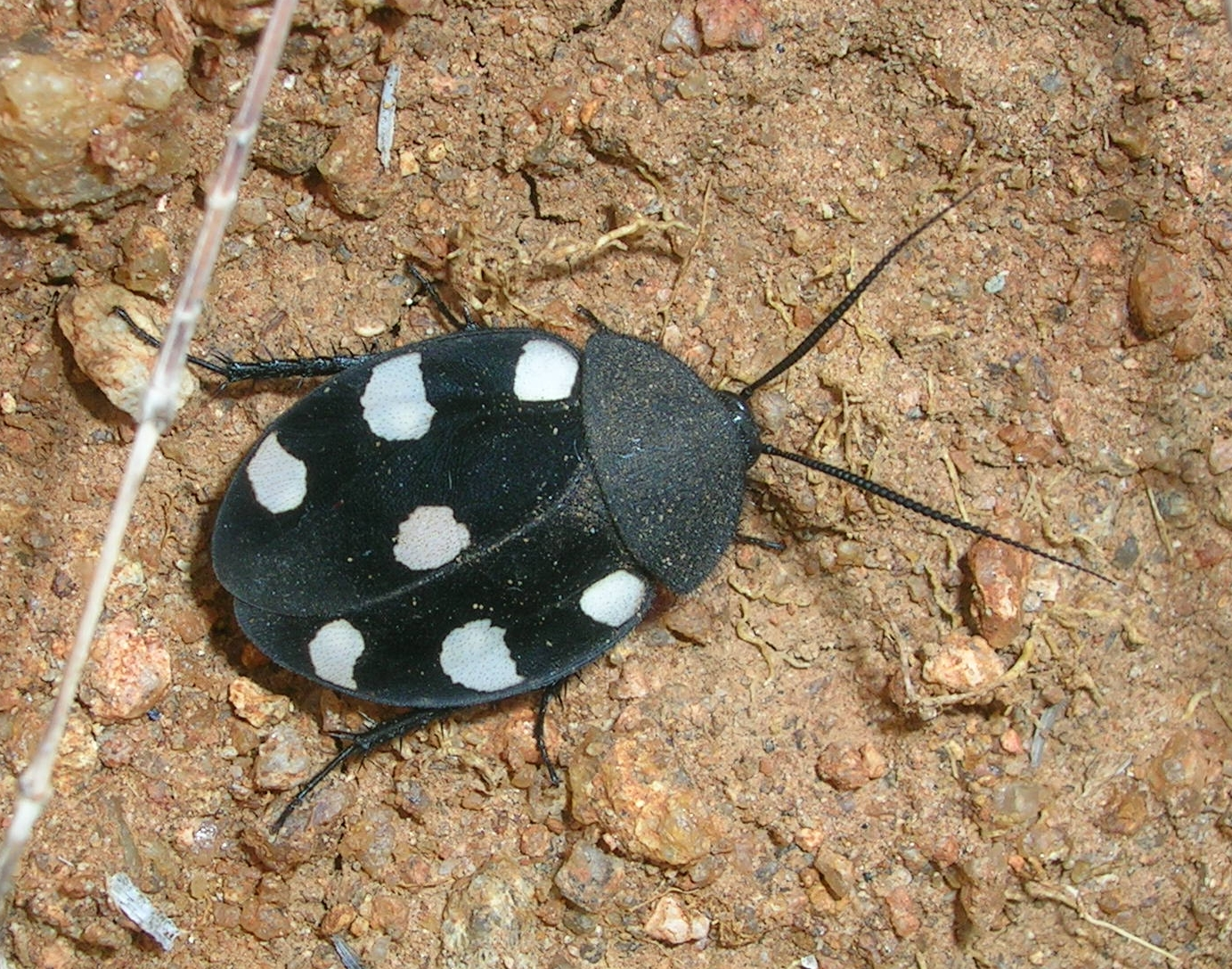 Seven spotted Roach, Therea petiveriana, (Determination courtesy: Prof. C. A. Viraktamath) Thiruvannamalai